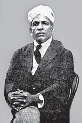 அ. மாதவையா. The person expired in 1925. So the image must have been taken before that.